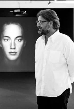 Giuseppe Mastromatteo.